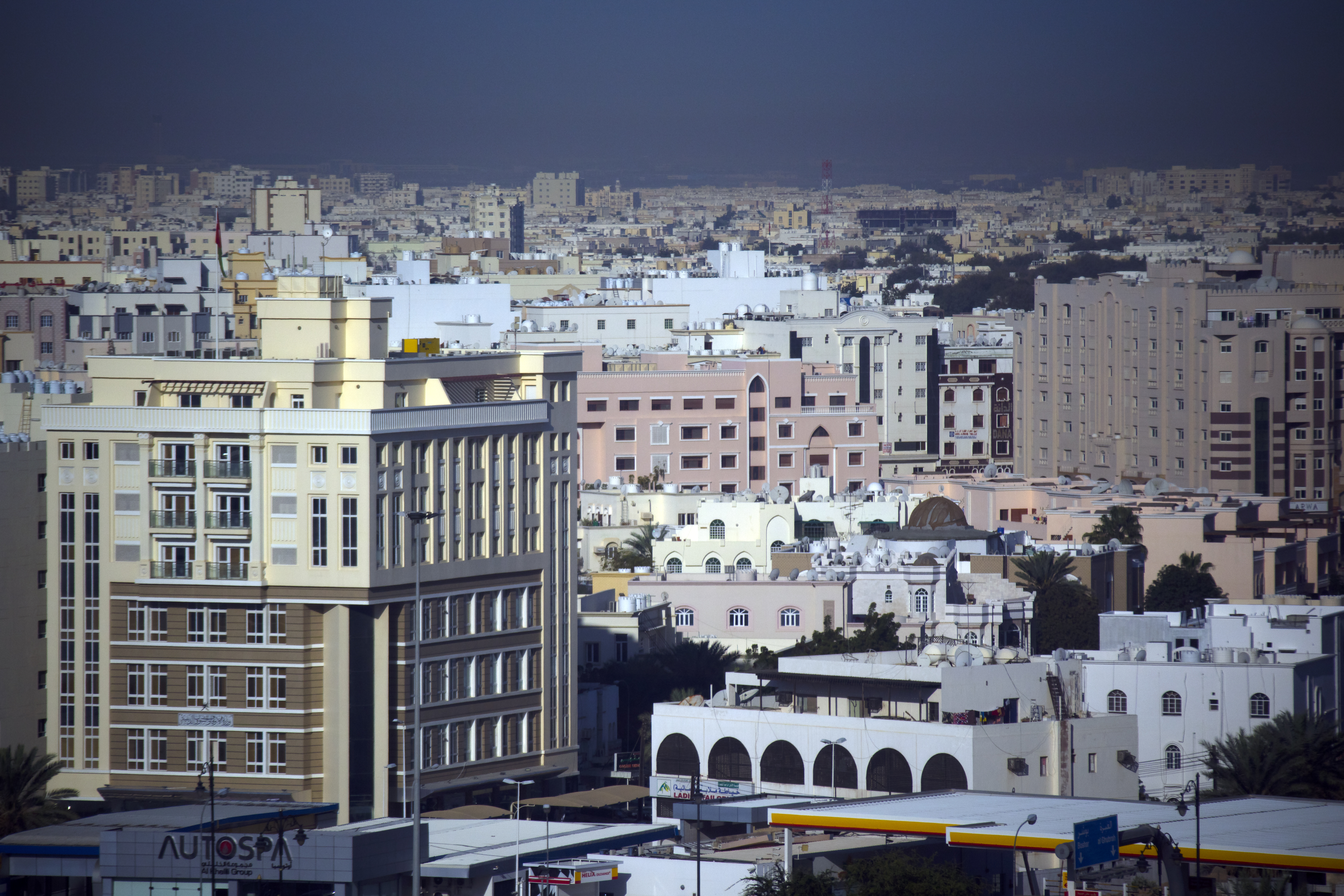 Muscat (Arabic: مسقط) is the capital and largest city of The Sultanate of Oman. It is the largest city in the mintaqah (governorate) of Muscat. The city of Muscat has a population of 650,000 (2005). The official language is Arabic.